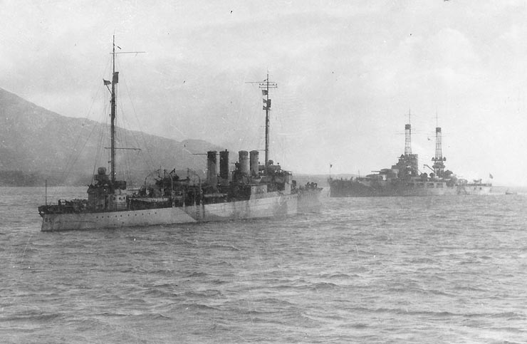 The U.S. Navy destroyer USS Stevens (DD-86) at Berehaven, Ireland, in 1918. The battleship USS Oklahoma (BB-37) is in the right background. Note Stevens' pattern camouflage.